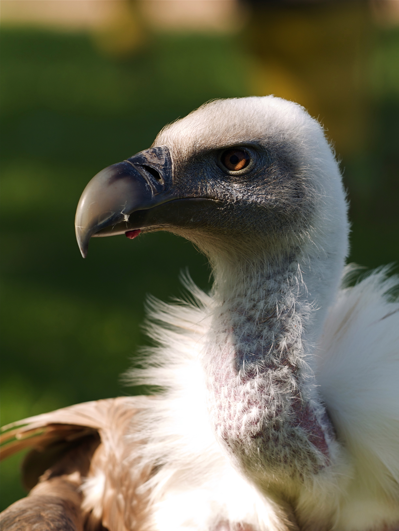 Griffon Vulture (Gyps fulvus), castle Augustusburg, Germany.